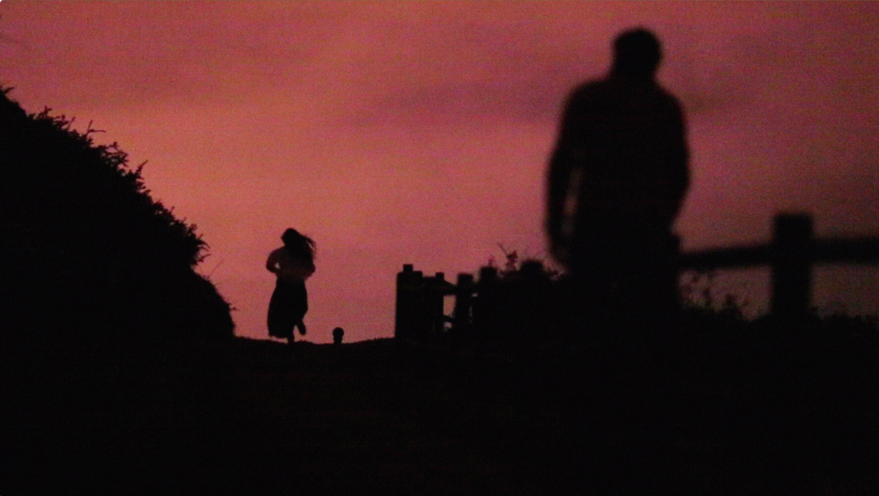 Still 5 from the film Advent (Ad-vientu) directed by Roberto F. Canuto & Xu Xiaoxi in 2016, with actors David Soto Giganto & Ici Diaz.